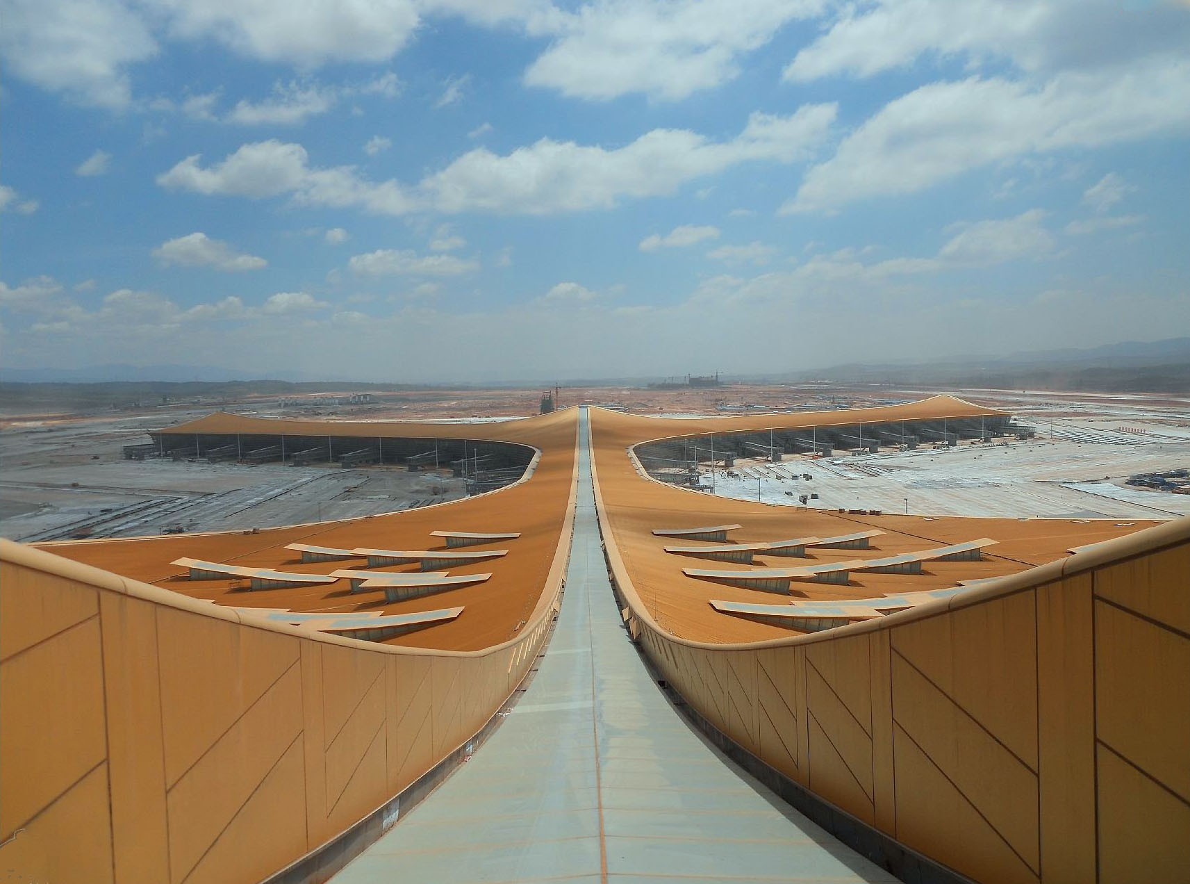 Overview at the top of New Kunming Airport